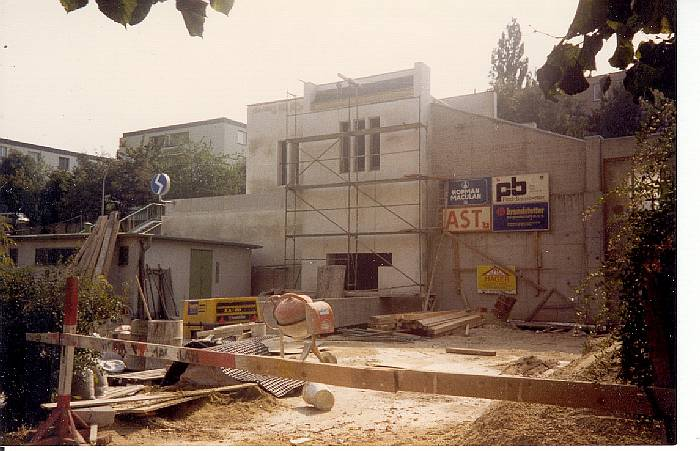 Station of Wiener Vororteline, 1987 selfmade photo